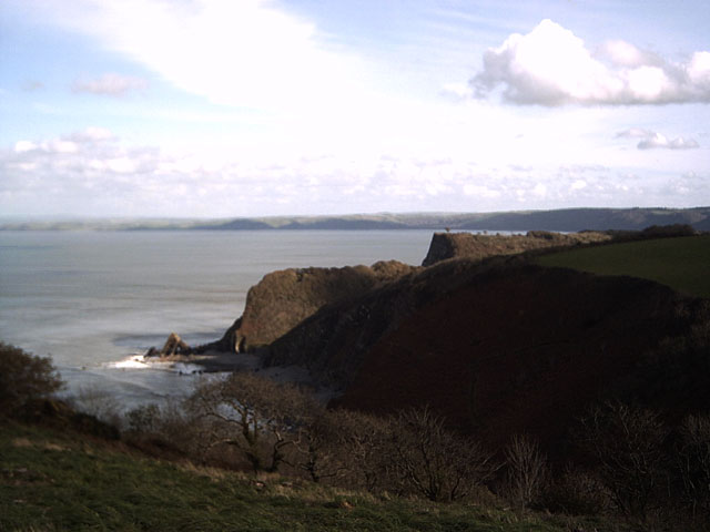 View from Windbury Hillfort. One of the great views from this section of the South West Coastpath (from Hartland Point to Clovelly). Left foreground: part of Windbury Hill. Right: Brownsham Cliff (a different one to the one in SS2726) Left: Blackchurch Rock SS2926. Right: Gallantry Bower SS3026